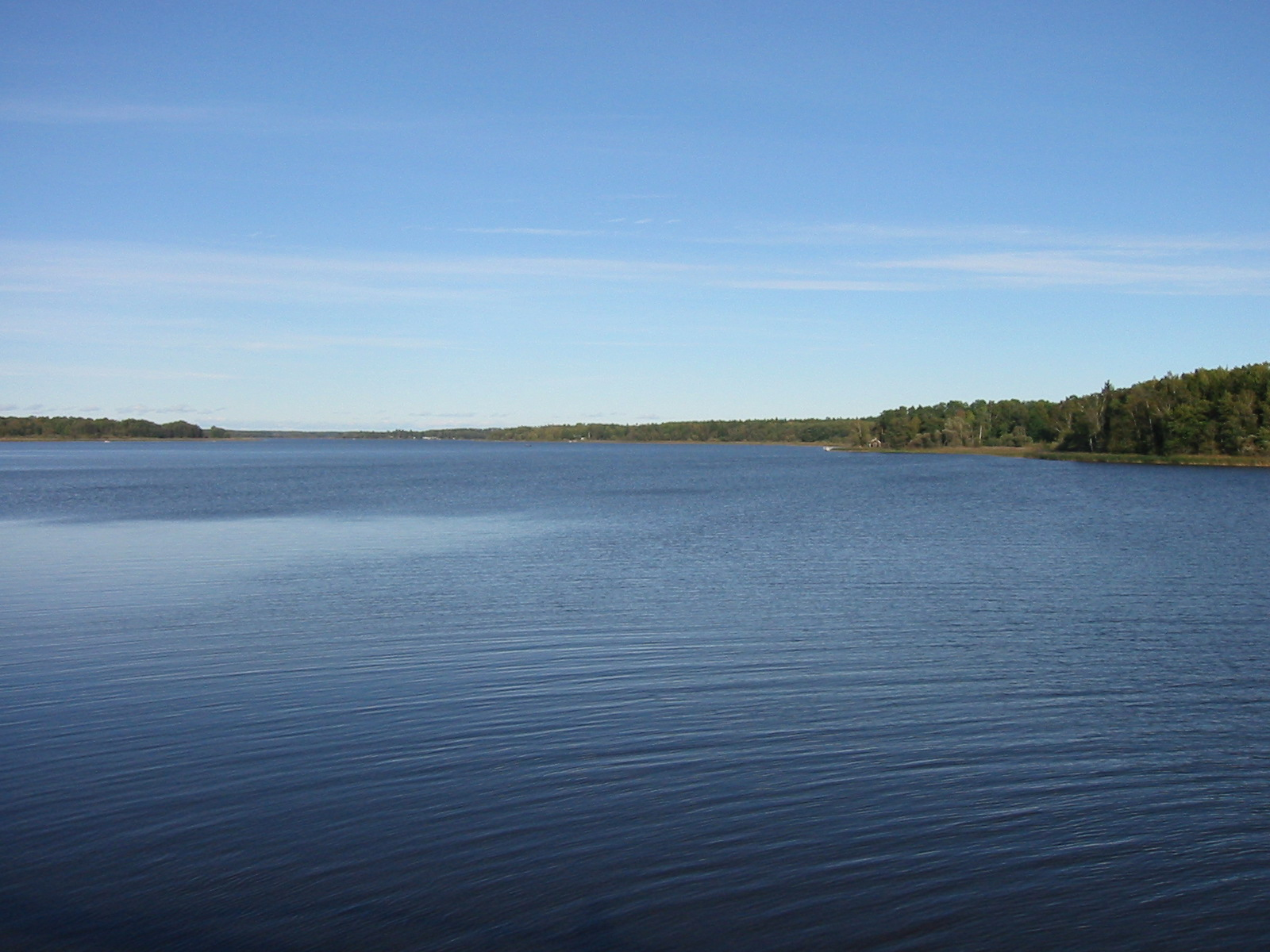 The fjard Freden at Lake Mälaren. View north from Borgåsund.